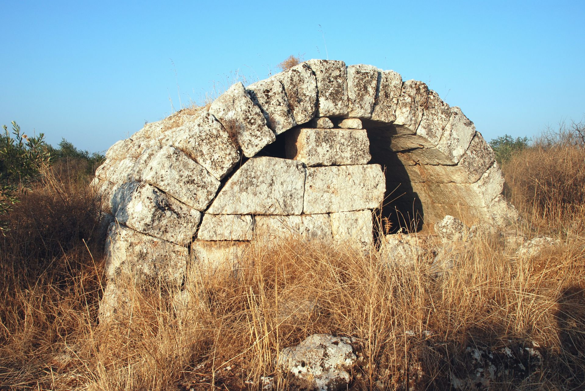 Barisha, in Jebel Barisha, dead city in Syria, cistern